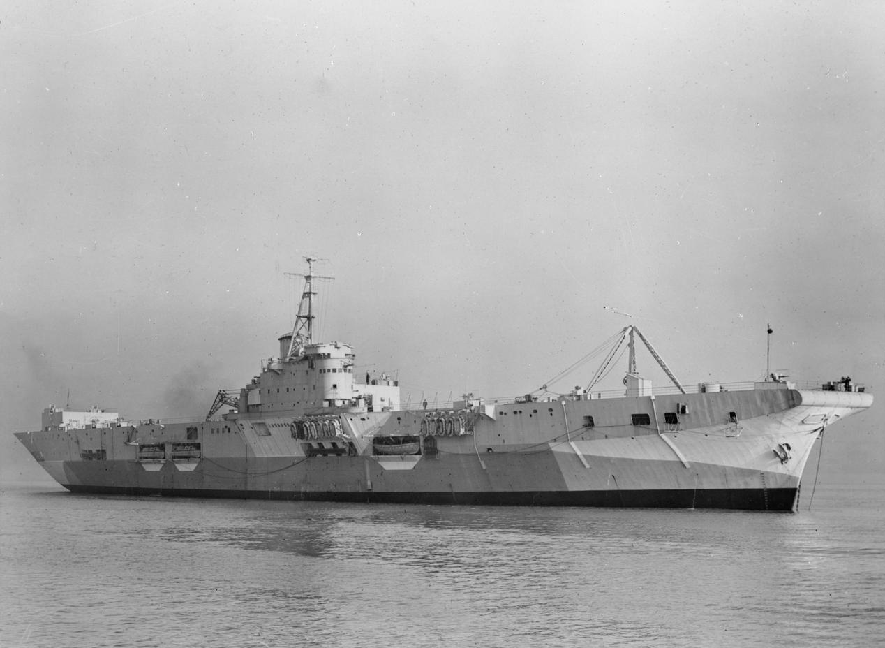 The Royal Navy Colossus-class aircraft carrier HMS Pioneer (R76). She was completed as an aircraft maintenance ship.